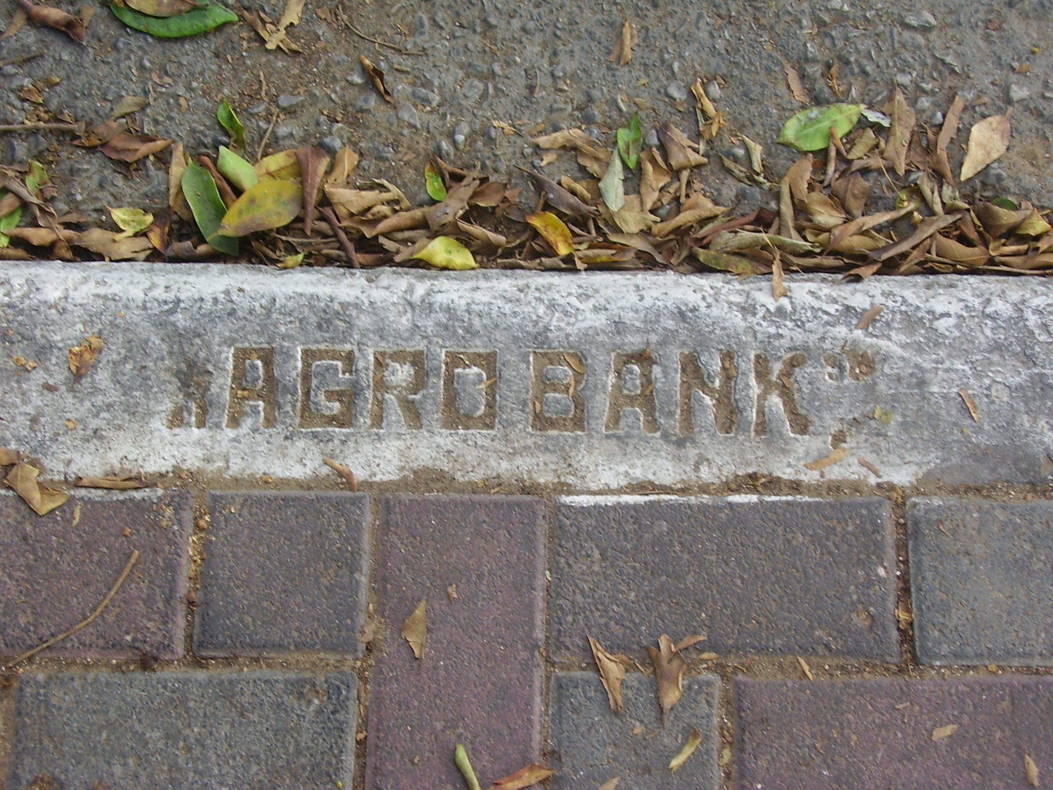 inscription "agrobank" in agrobank neighborhood, holon